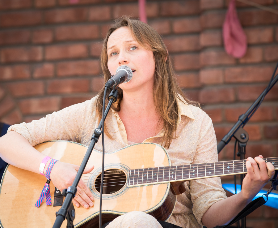 Marte Wulff at the Borggården stage in the Vigeland Park. The concert was part of Piknik i Parken and took place on 24. June 2017 in Oslo. Lineup: Marte Wulff (guitar and vocal), Unidentified (guitar), Unidentified (bass guitar), Unidentified (drums), Unidentified (keyboard) and Unidentified (cello).